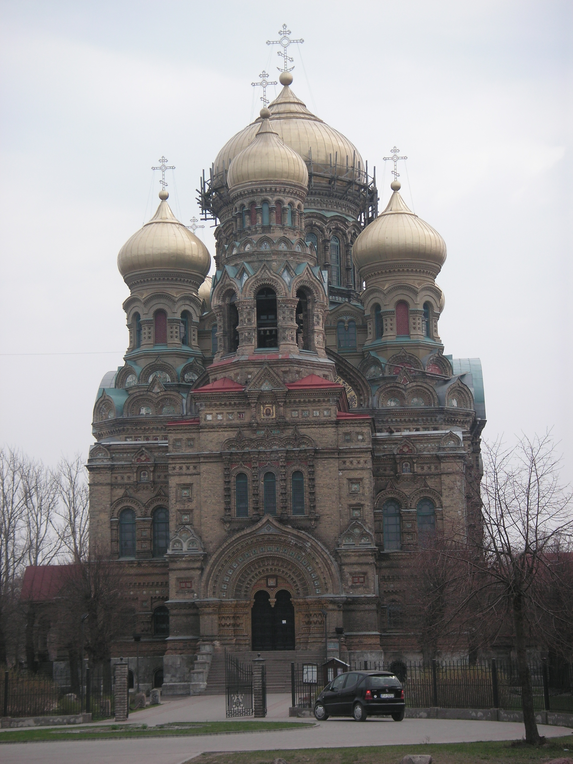 The outstanding St. Nikolai Orthodox Naval Cathedral (1901-1903) Photograph by C.B.Doak